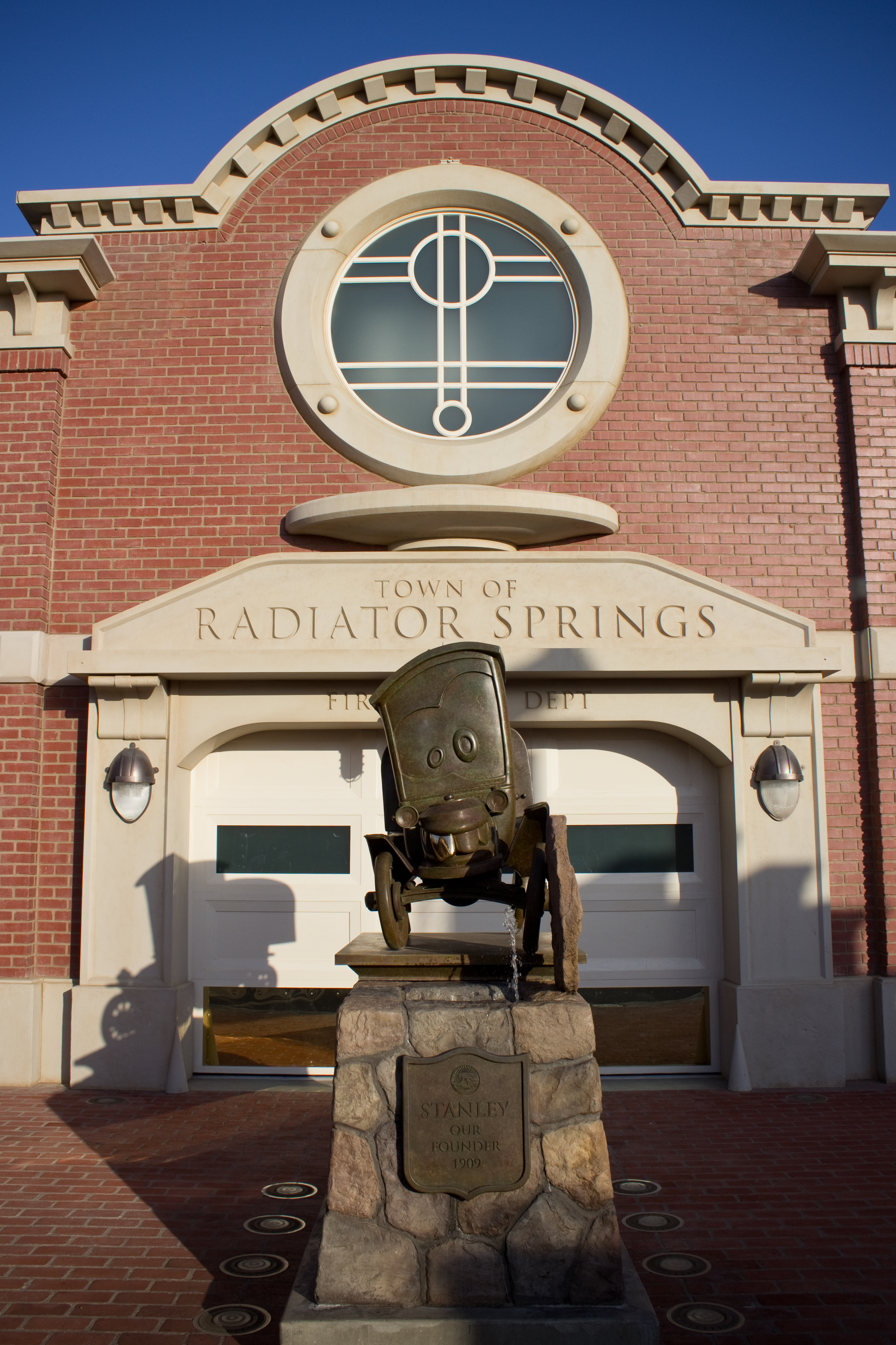 The gorgeous and amazingly detailed Radiator Springs in Cars Land at Disney California Adventure.